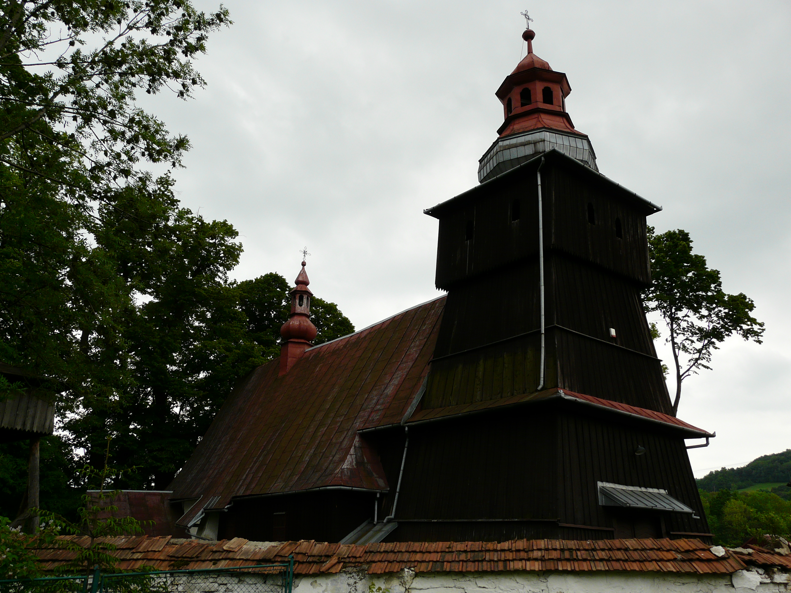 Parish church dedicated to St. Nicholas from the Bishop from the XVI century, aisless, frame structure.